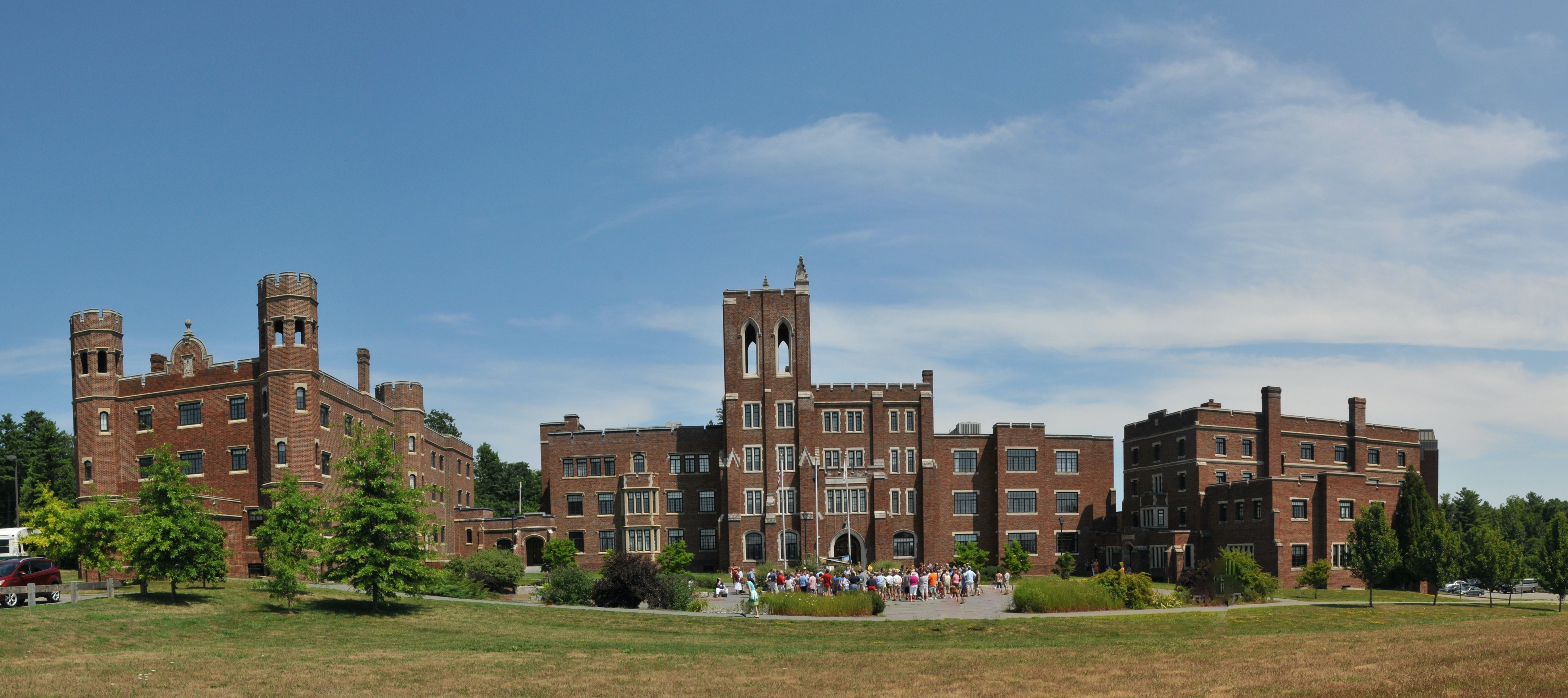 Oak Grove-Coburn School looking like a castle on a hill, in Vassalboro, Maine